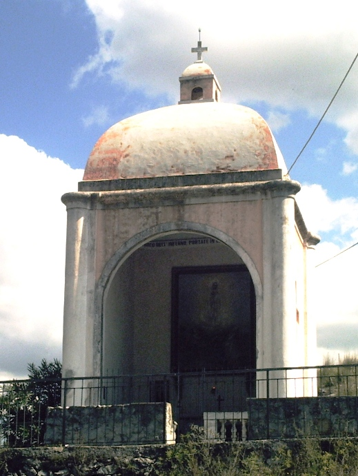 The chapel of Fatima in Maratea